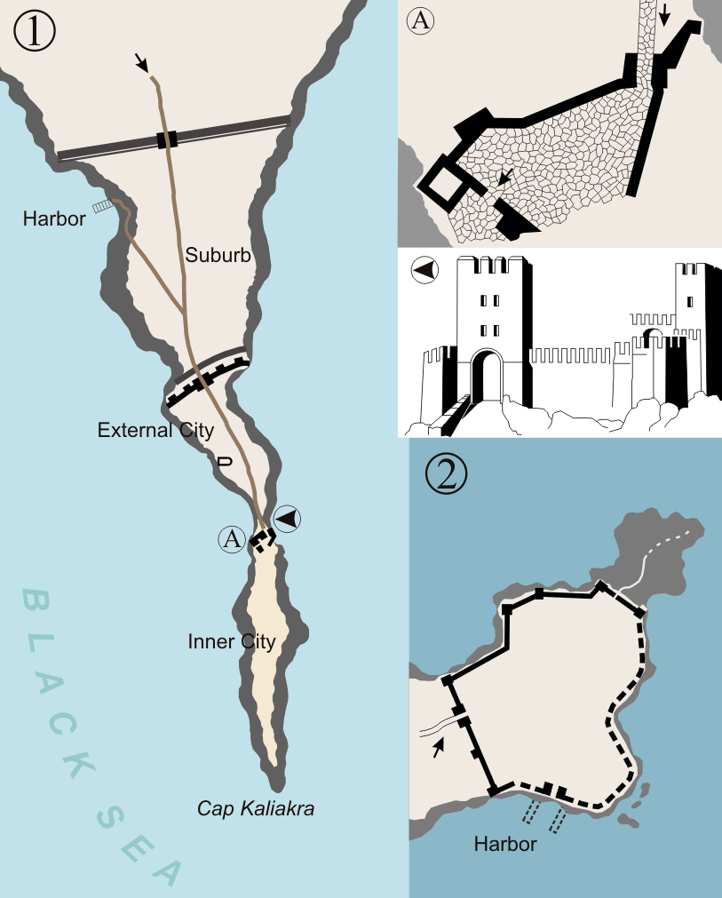 Kaliakra Fortress - plan